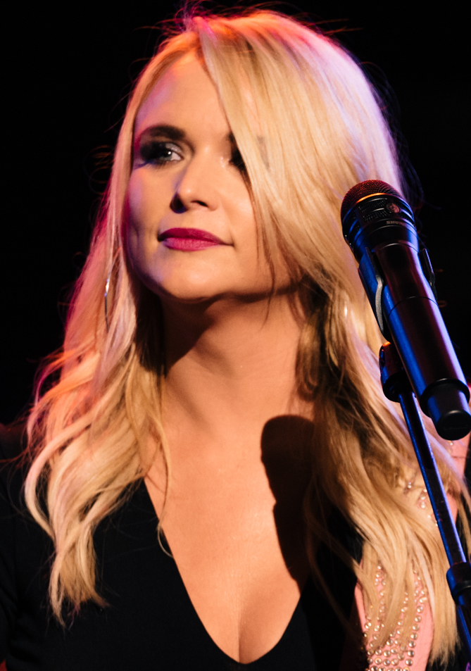 Miranda Lambert live on the Bandwagon Tour in 2019